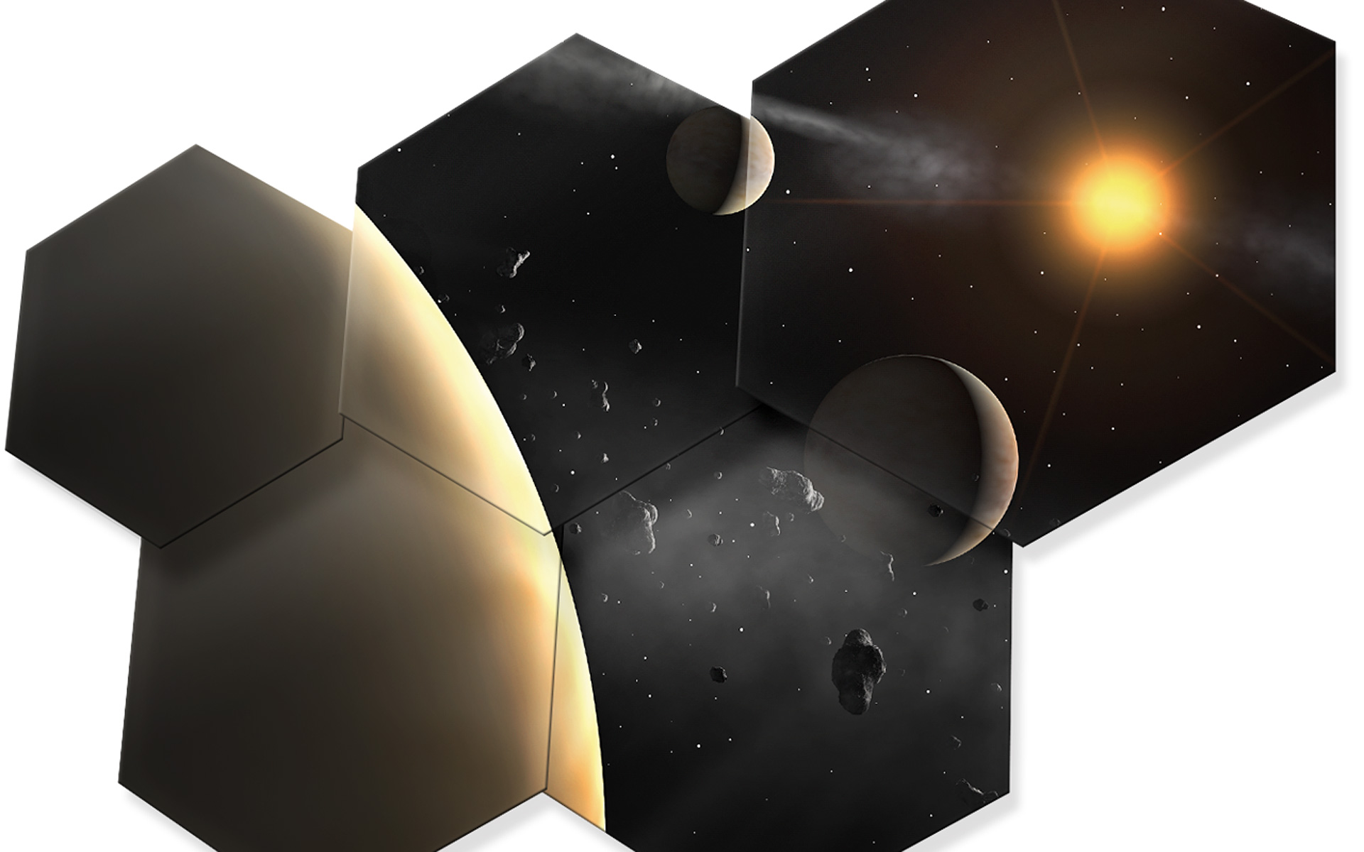 Artwork showing some hexagonal mirror pieces of E-ELT